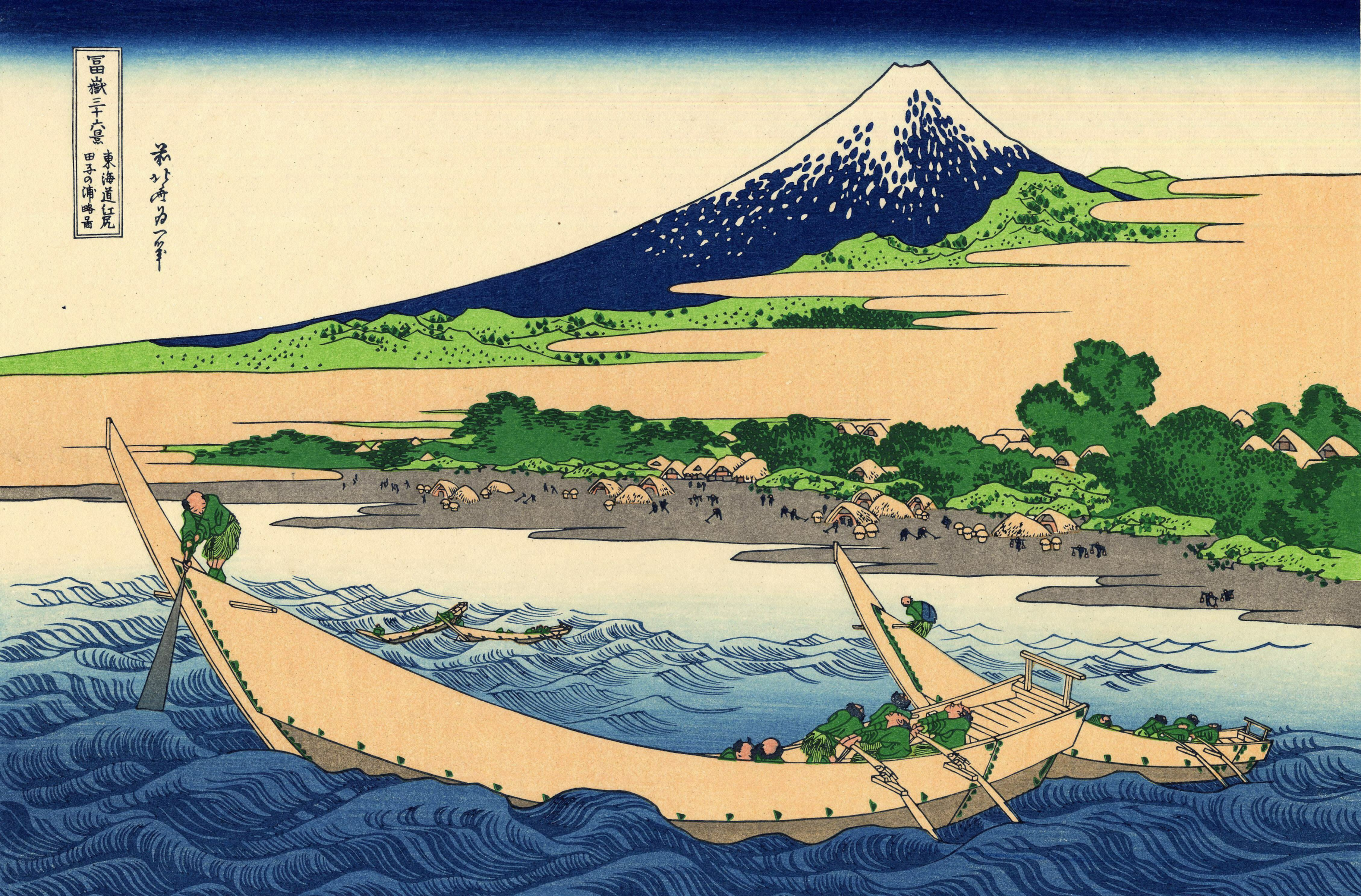 Part of the series Thirty-six Views of Mount Fuji, no. 36.